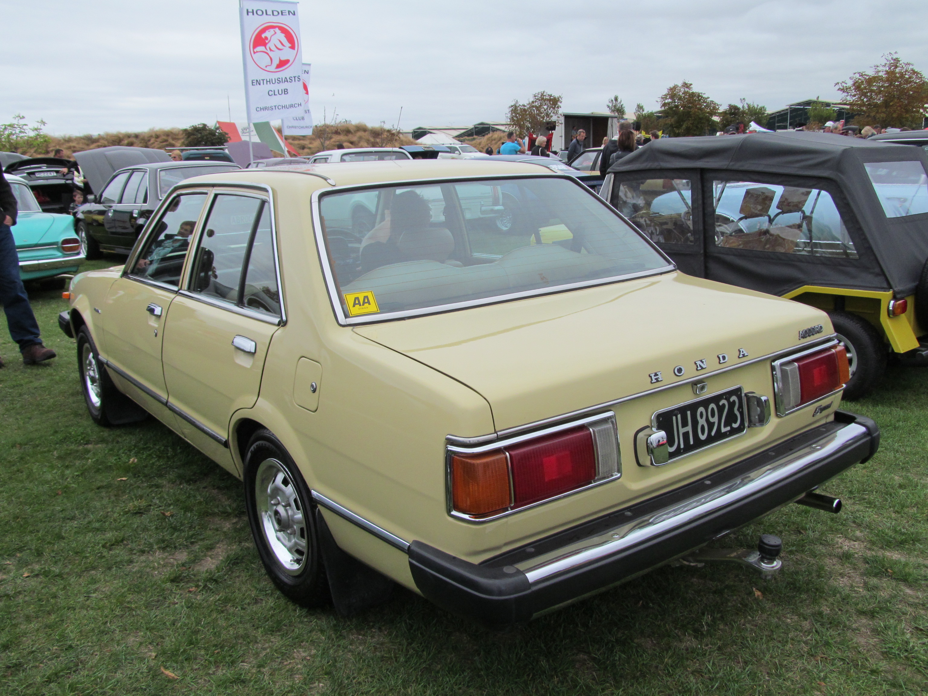 A really nice example - no rust anywhere, and totally original. A definite classic now.